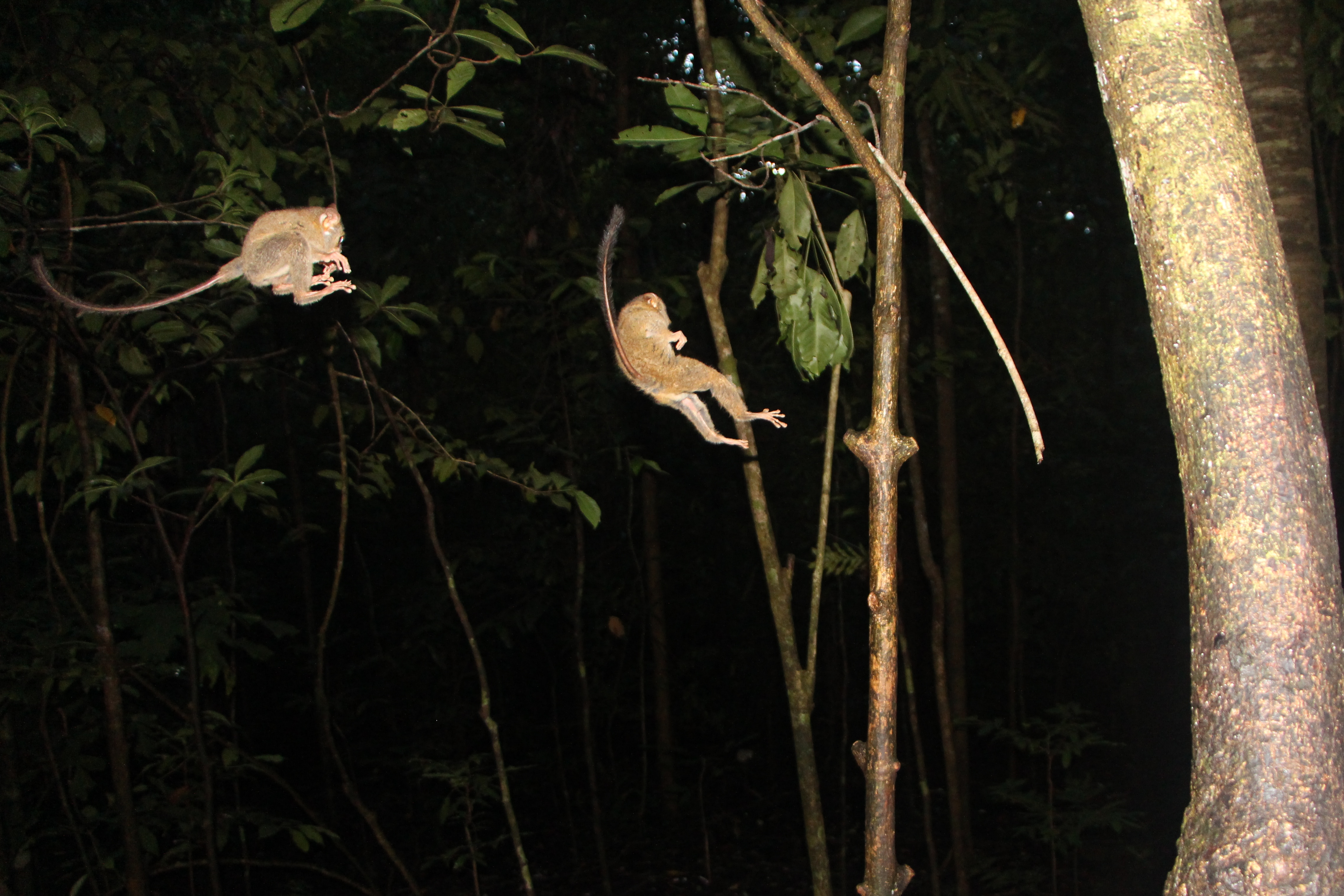 2 sulawesi tarsius jumping to catch locust disposed on a branch